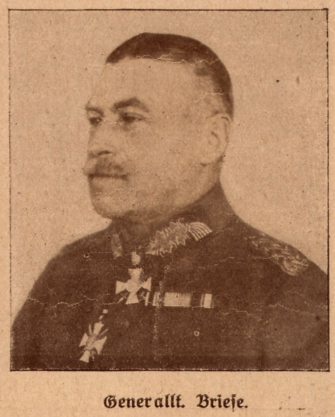 German Lieutenant-General Carl Briese (WW1)